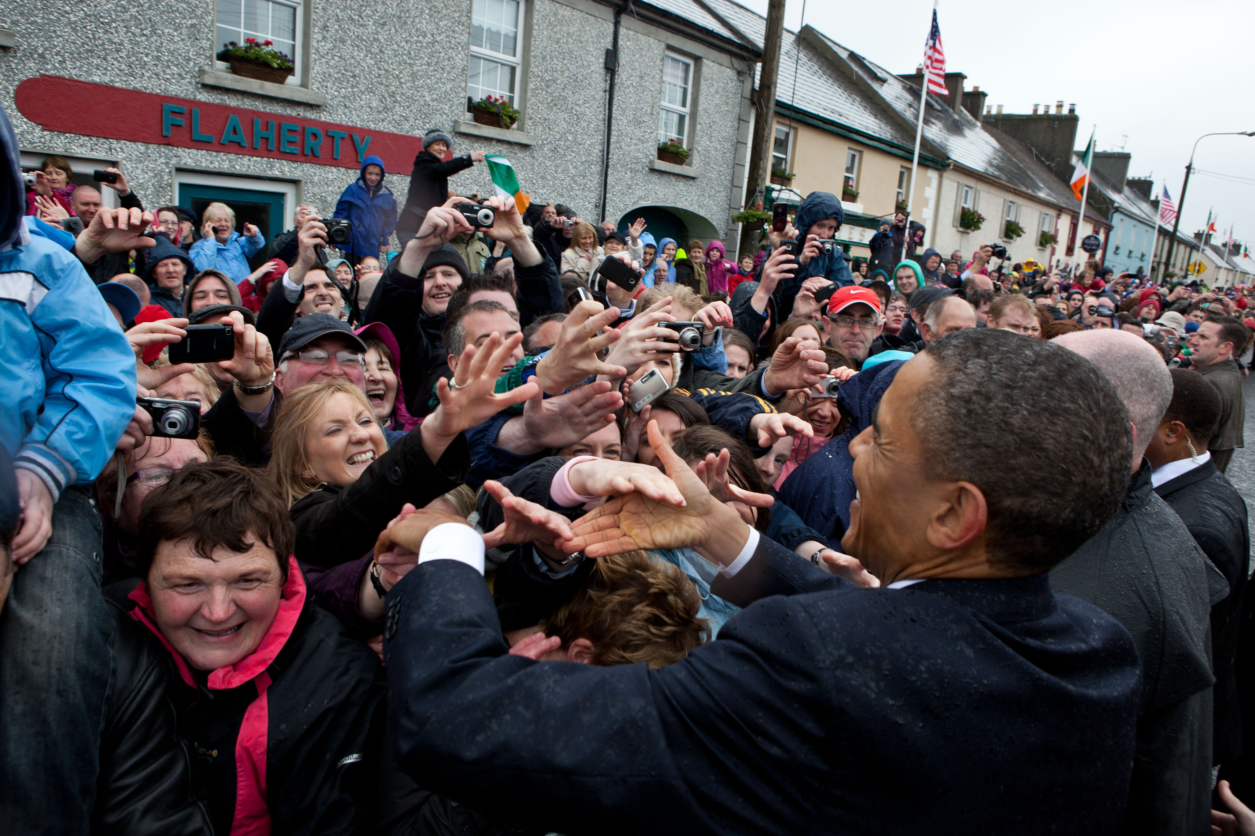 U.S. President Barack Obama greets local residents on Main Street in Moneygall, Ireland, May 23, 2011.